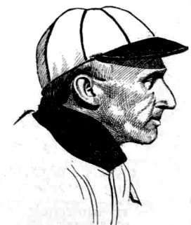 A drawing of professional baseball player Kid Moler by Harry Murphy which was published in the June 20, 1909 edition of The Sunday Oregonian.